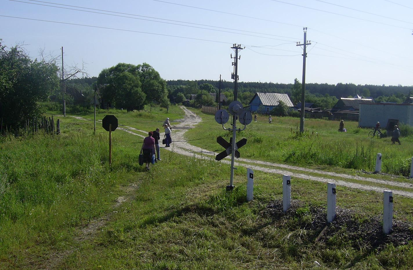 Babinka, 109 km (Bryansk oblast)